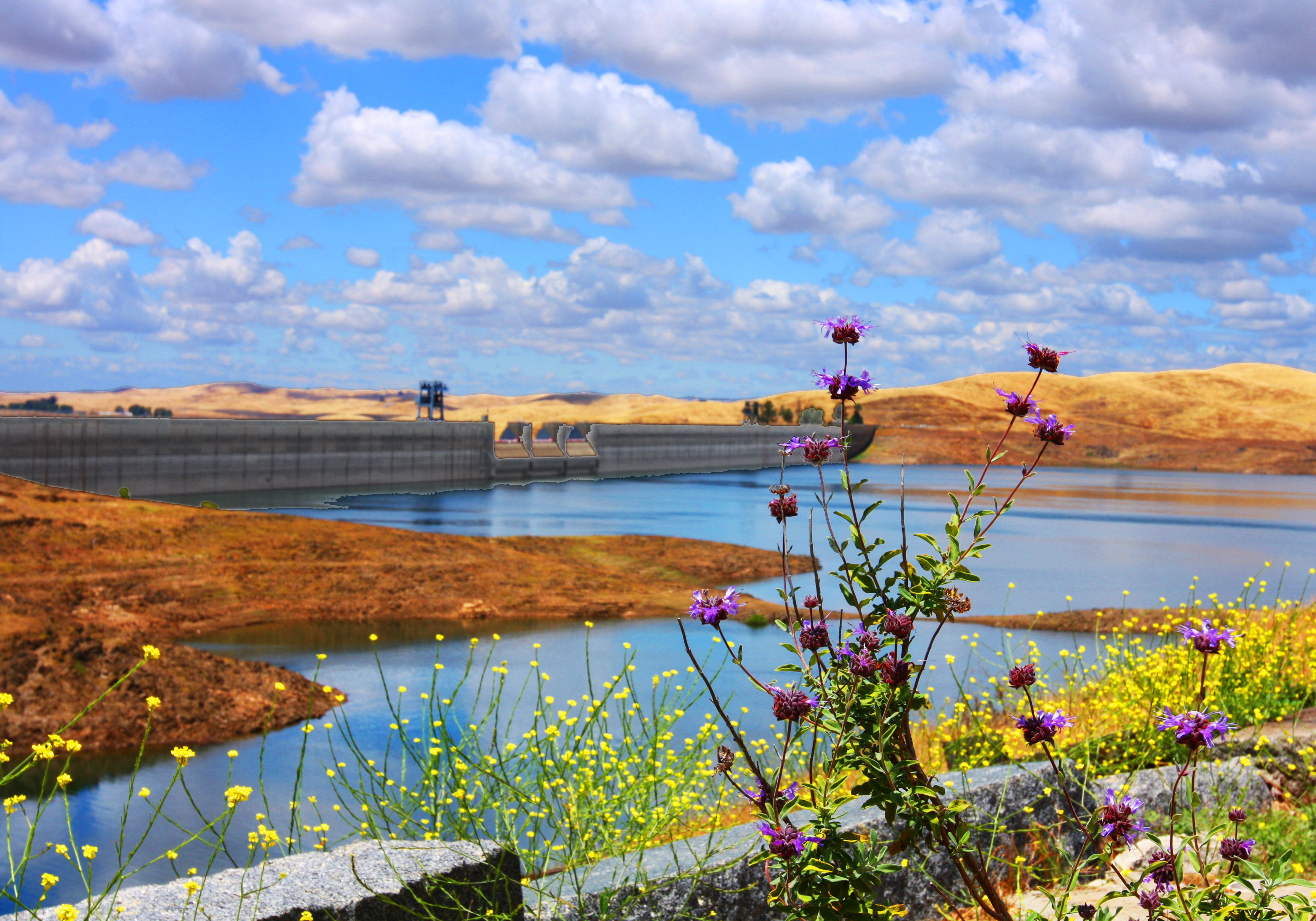 Friant Dam was built in 1942. The building of Friant Dam created Millerton Lake